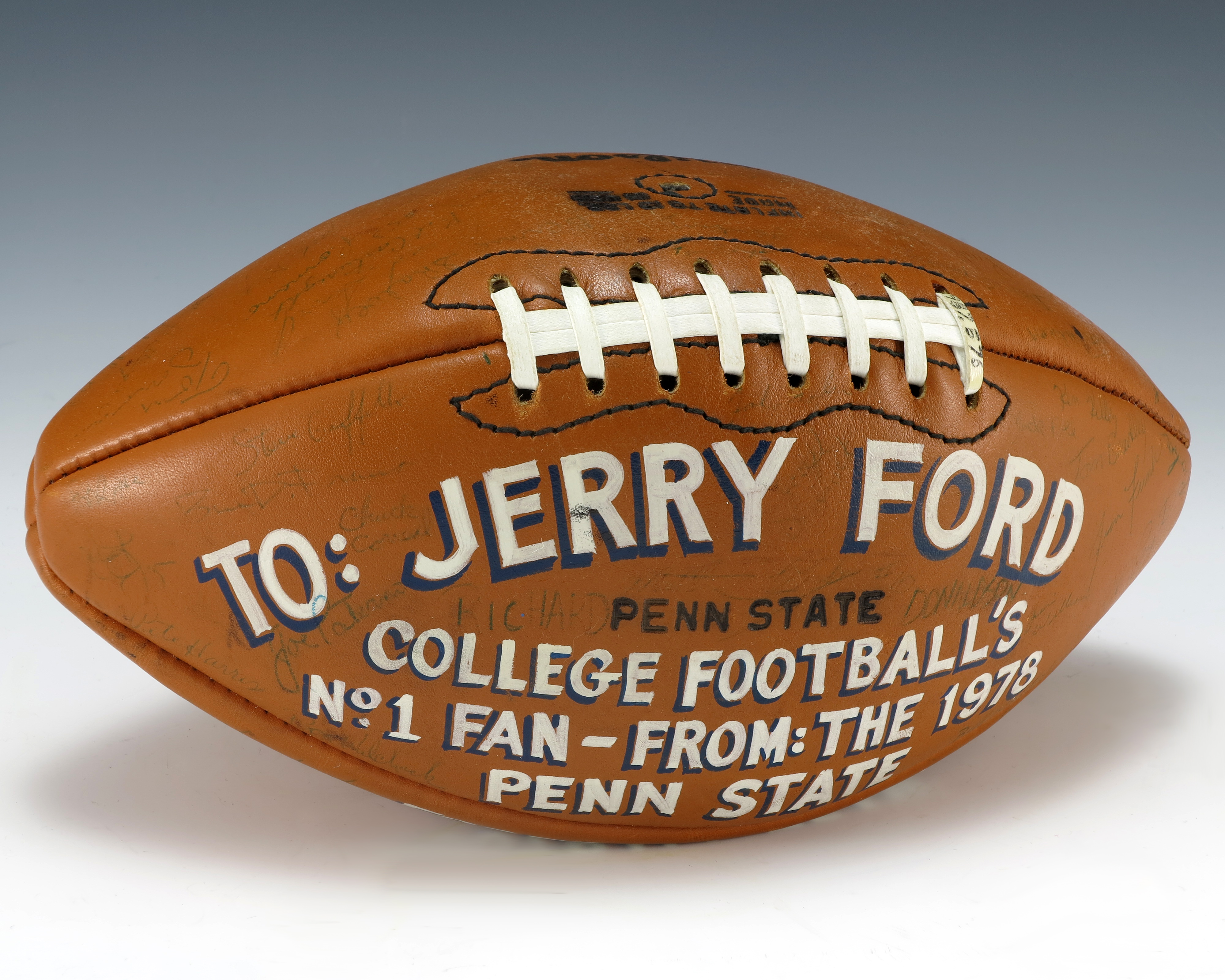 A football inscribed and signed to Gerald R. Ford from the 1978 Penn State team. Notable signatures include Joe Paterno, Matt Millen, and Chuck Fusina the '78 Heisman trophy runner-up and Maxwell Award winner.